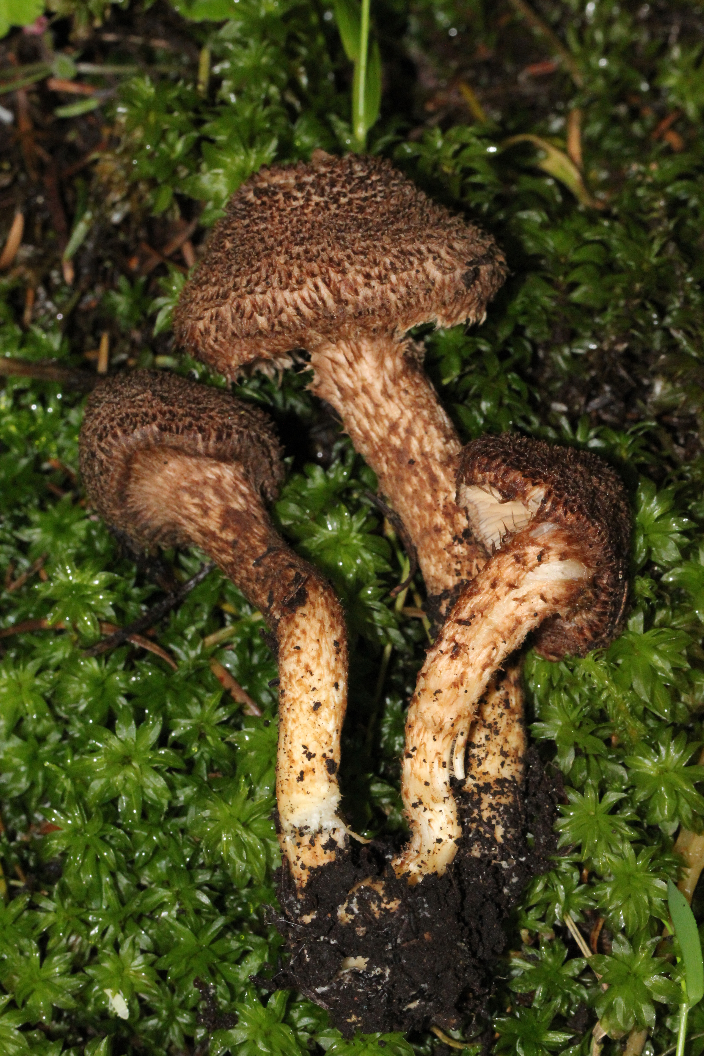 Inocybe hystrix (Fr.) Karsten